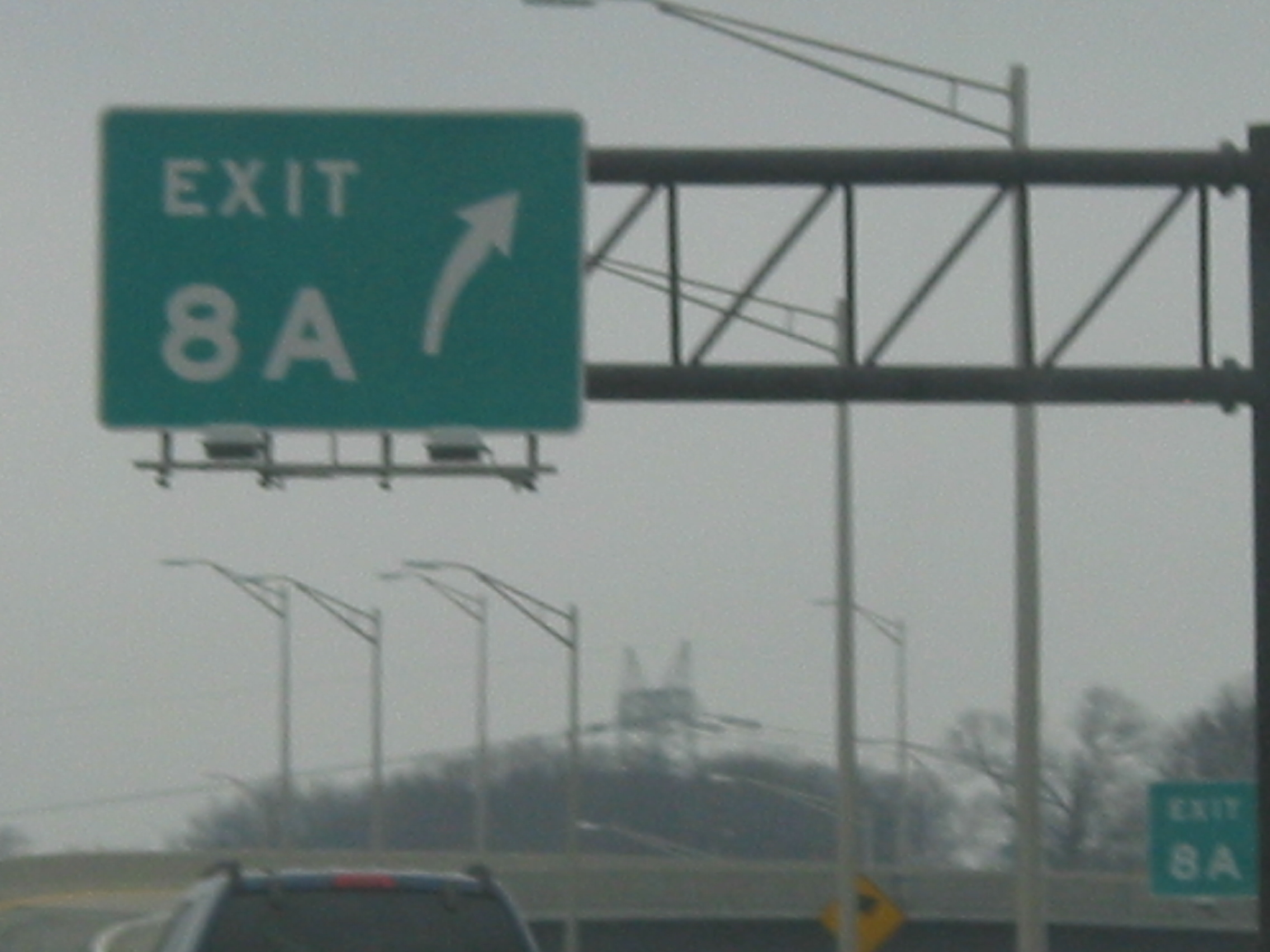 NJTP at exit 8A.